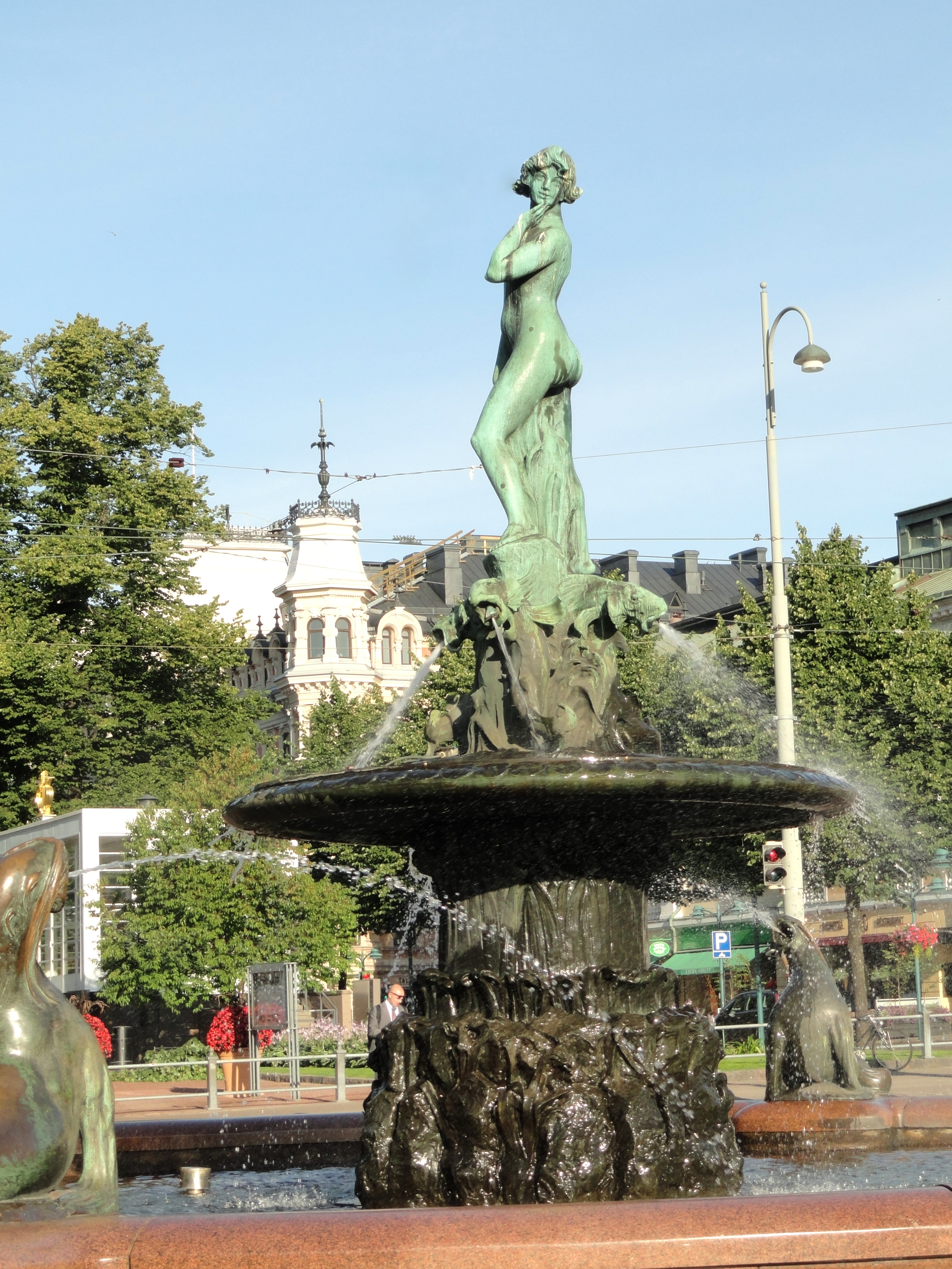 Havis Amanda, Esplanadi, Helsinki, Finland. Sculptor: Ville Vallgren. This artwork is in the public domain because the artist died more than 70 years ago.